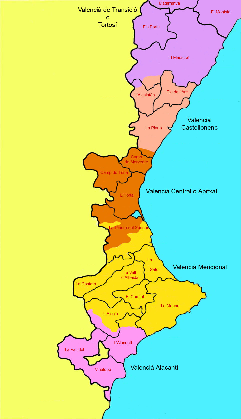 Subdialects of Valencian dialect (in catalan). Complement of dialectal map of Catalan Language.